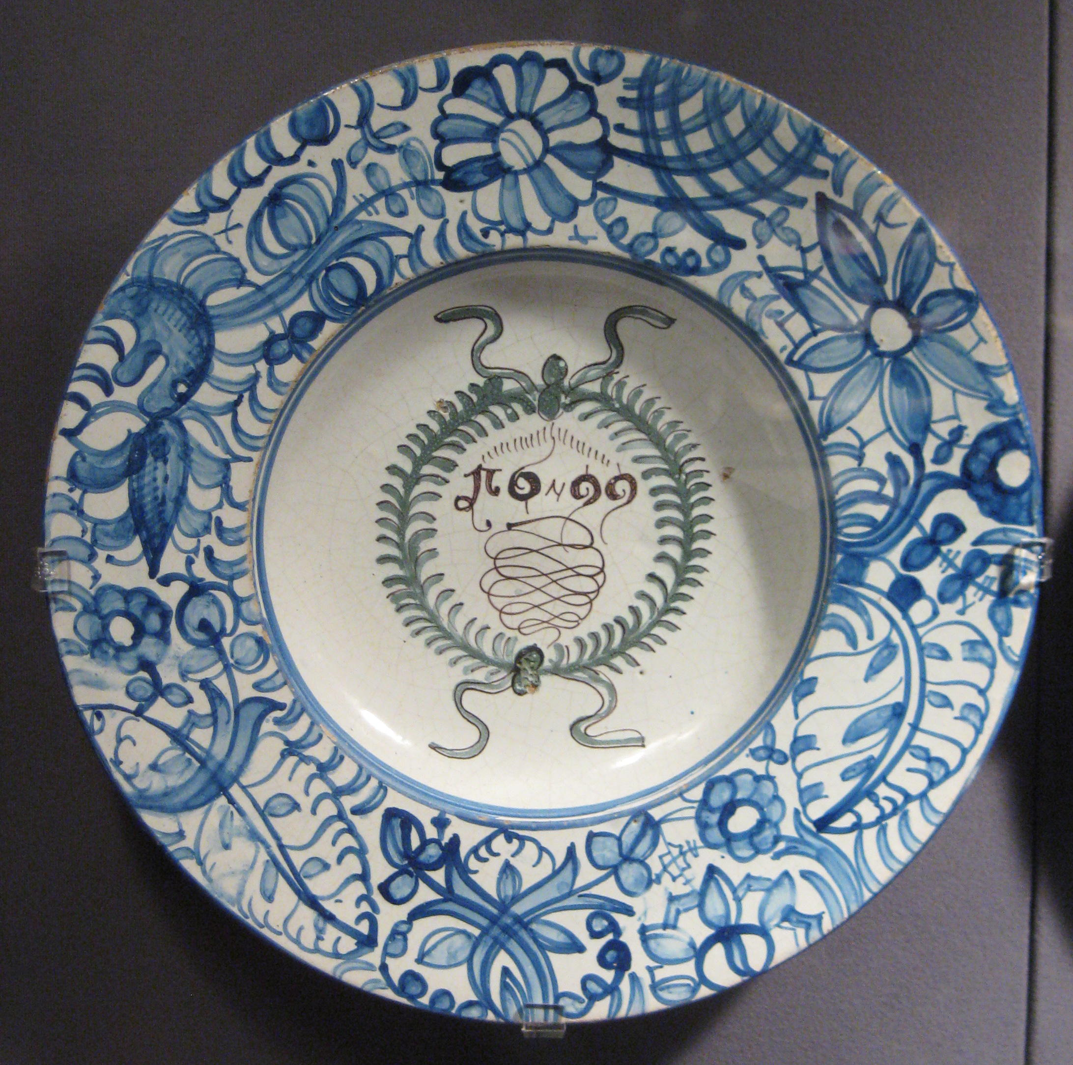 This 1699 dish comes from the Odler workshop in Dechtice, Slovakia. The Odlers were a family of craftsman who had converted to Catholicism from the Anabaptist community. This is one of their well known blue and white wares. It is today located in the Koerner European Ceramic Gallery of UBC's Museum of Anthropology in Vancouver, Canada. (Note: This image is a cropped version of my original full resolution picture.)